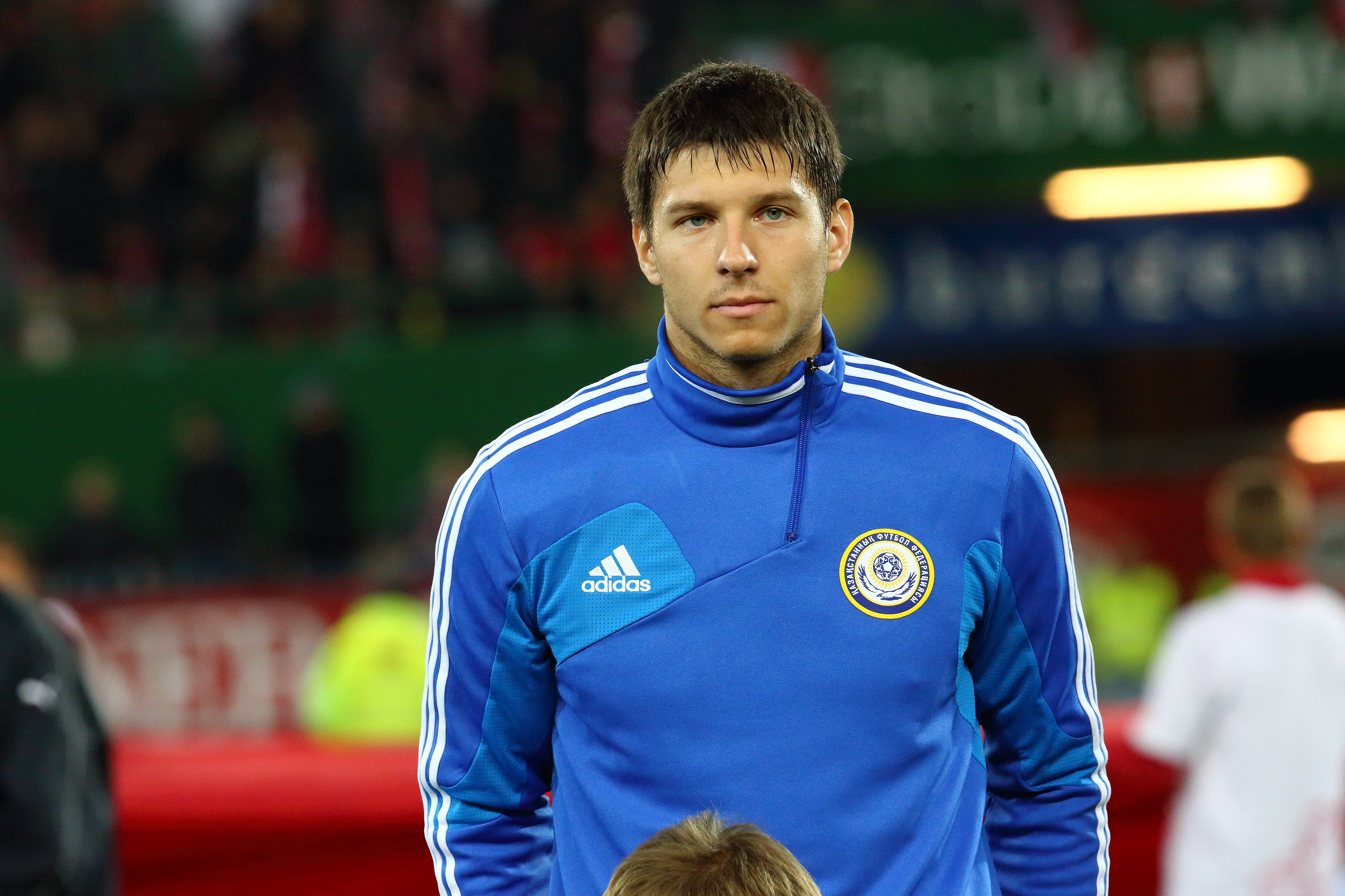 Viktor Dmiktrenko before the match against Austria on October 16th 2012.